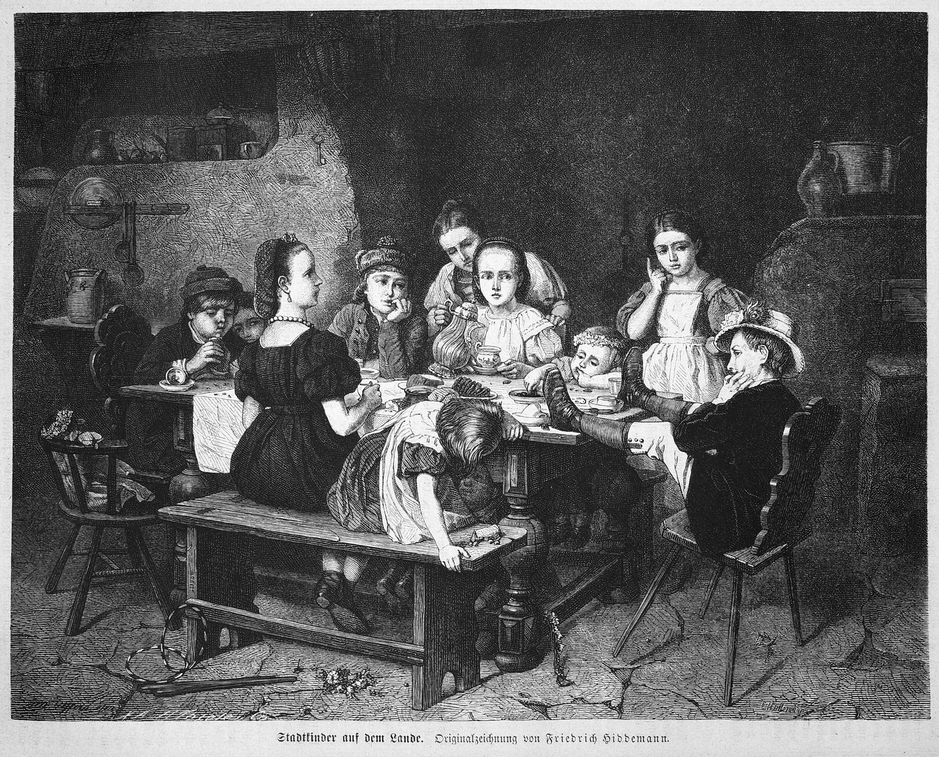 Image from page 499 of journal Die Gartenlaube, 1872.